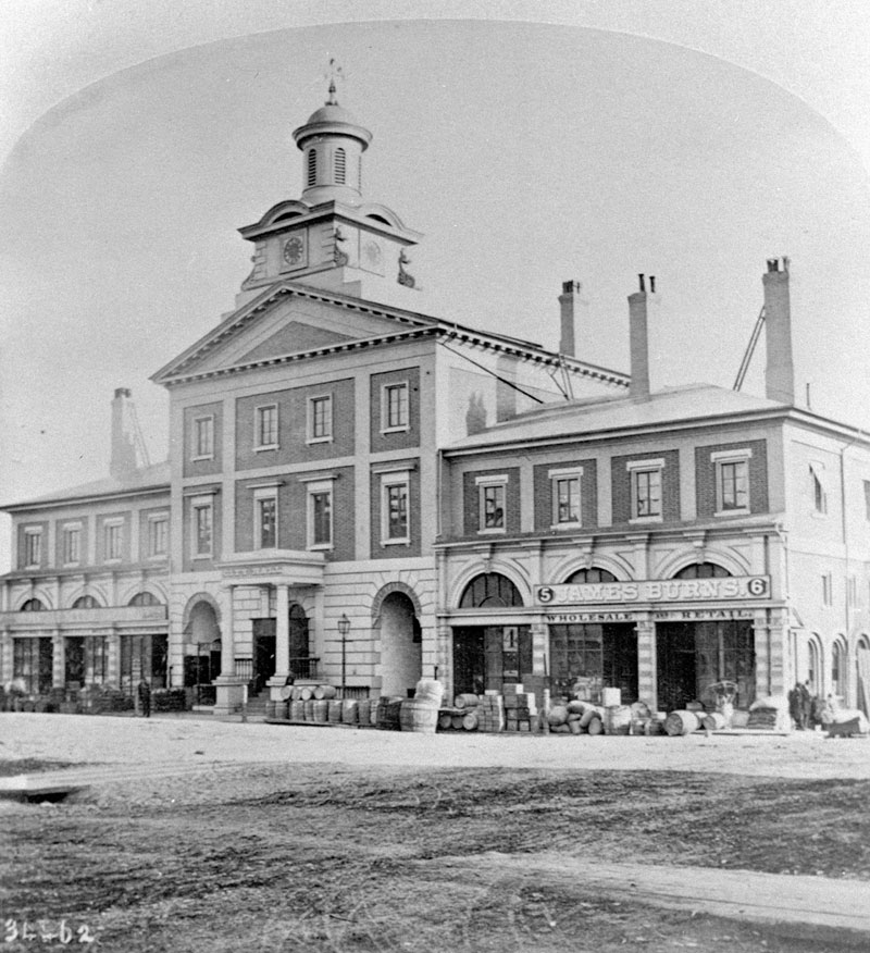 Toronto's second city hall, built in 1845 and renovated in 1850, architect Henry Bowyer Lane. Known as the 'New Market House' it served as city hall until 1899. Toronto, Canada.